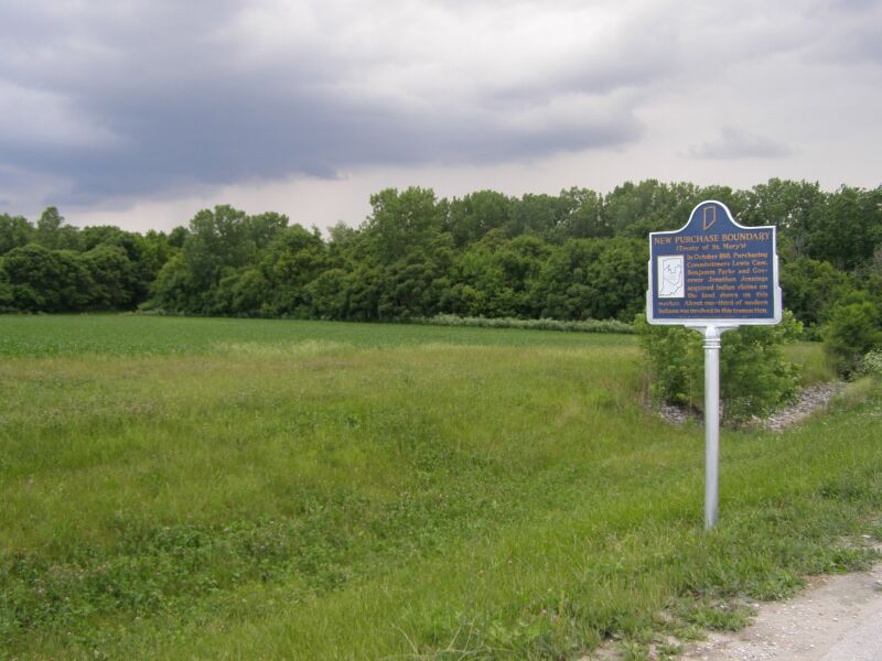 Boundary line of the 1818 treaty passed through this field.